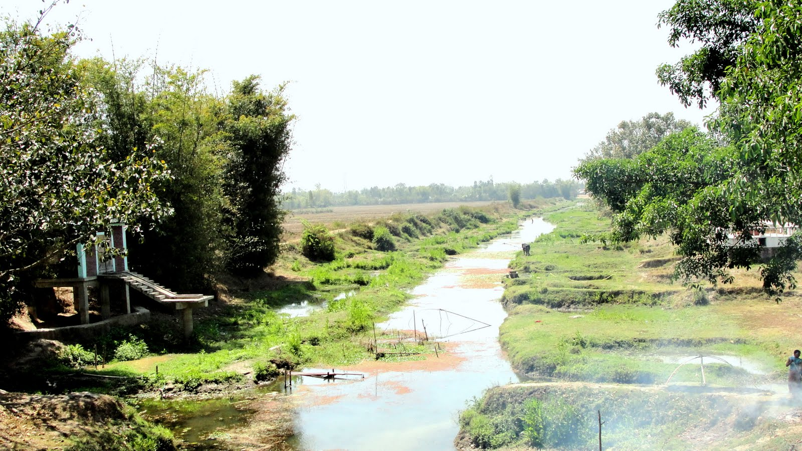 Arong River runs through the village of Khangabok, Manipur, India.